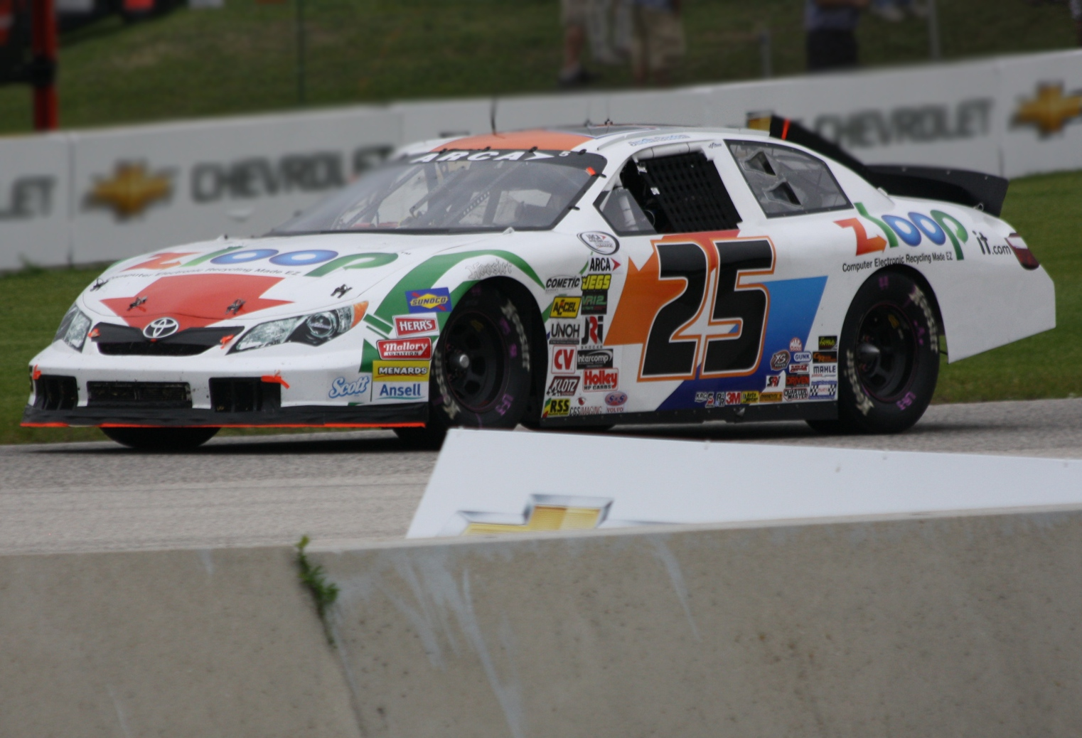 The #25 ARCA car of 2013 Rookie of the Year Justin Boston at Road America.